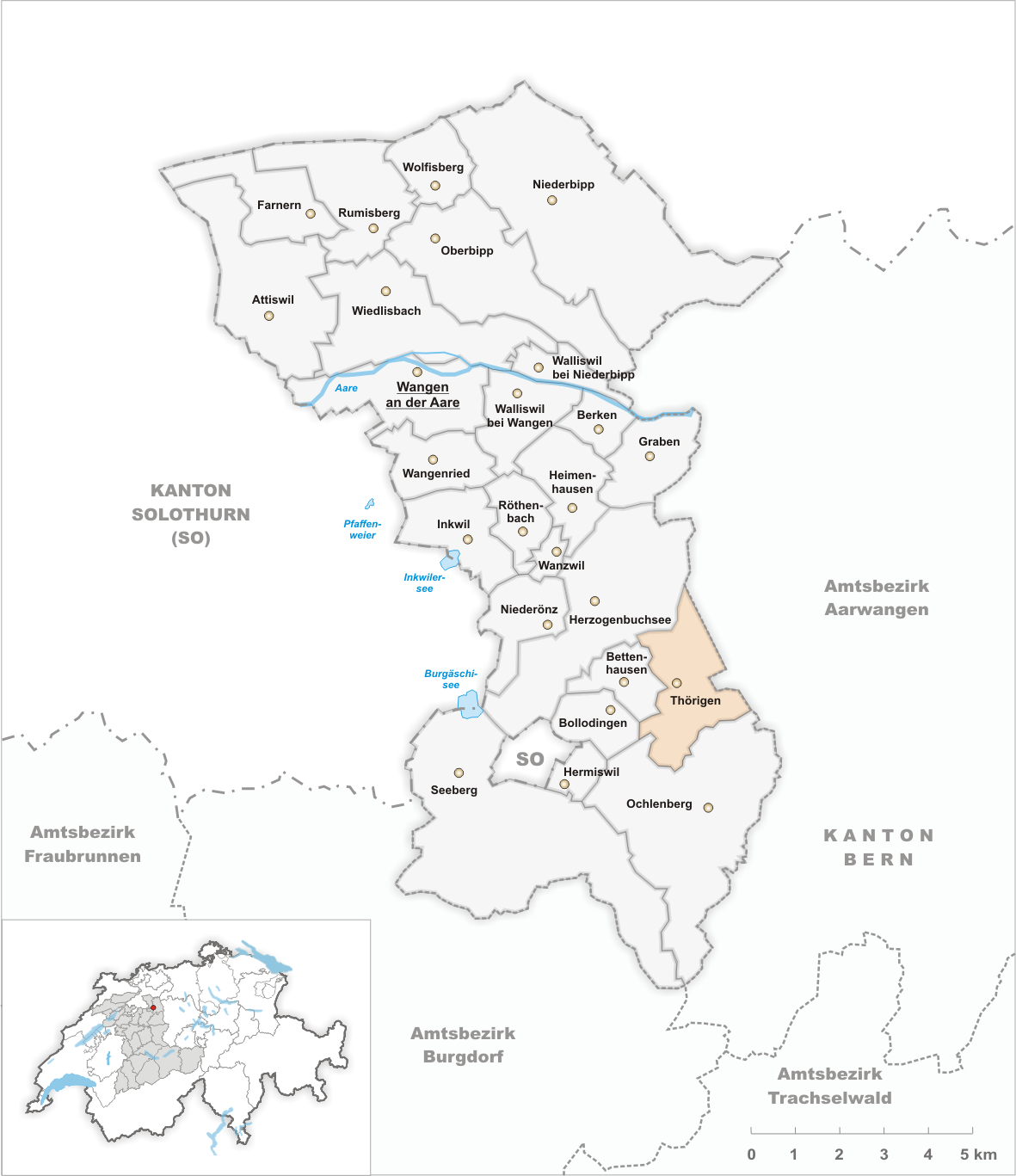 Municipality Thörigen